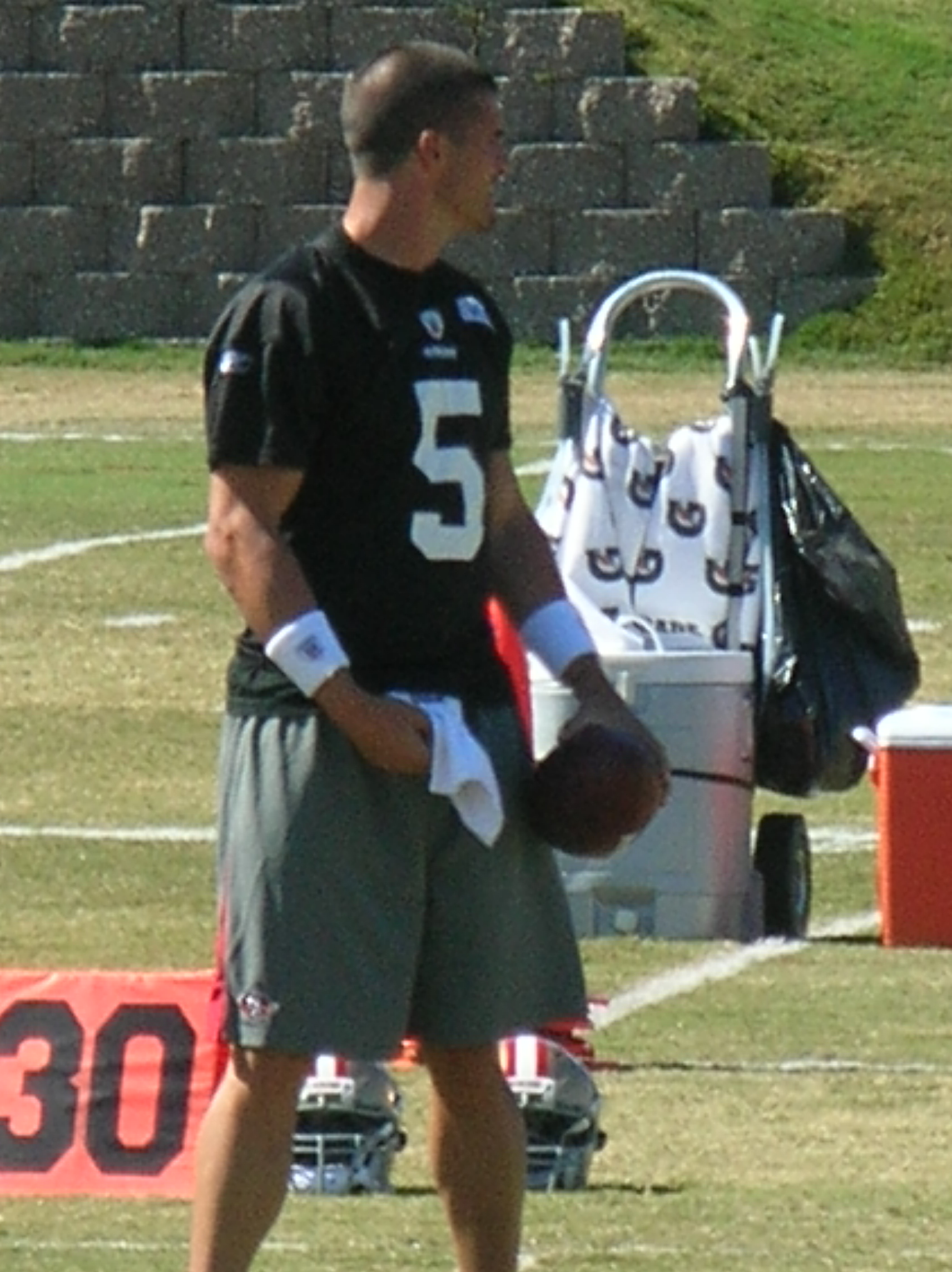 San Francisco 49ers quarterback David Carr at training camp in Santa Clara, California.